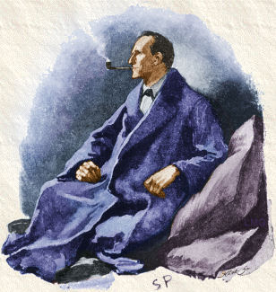 A colour image of Sherlock Holmes